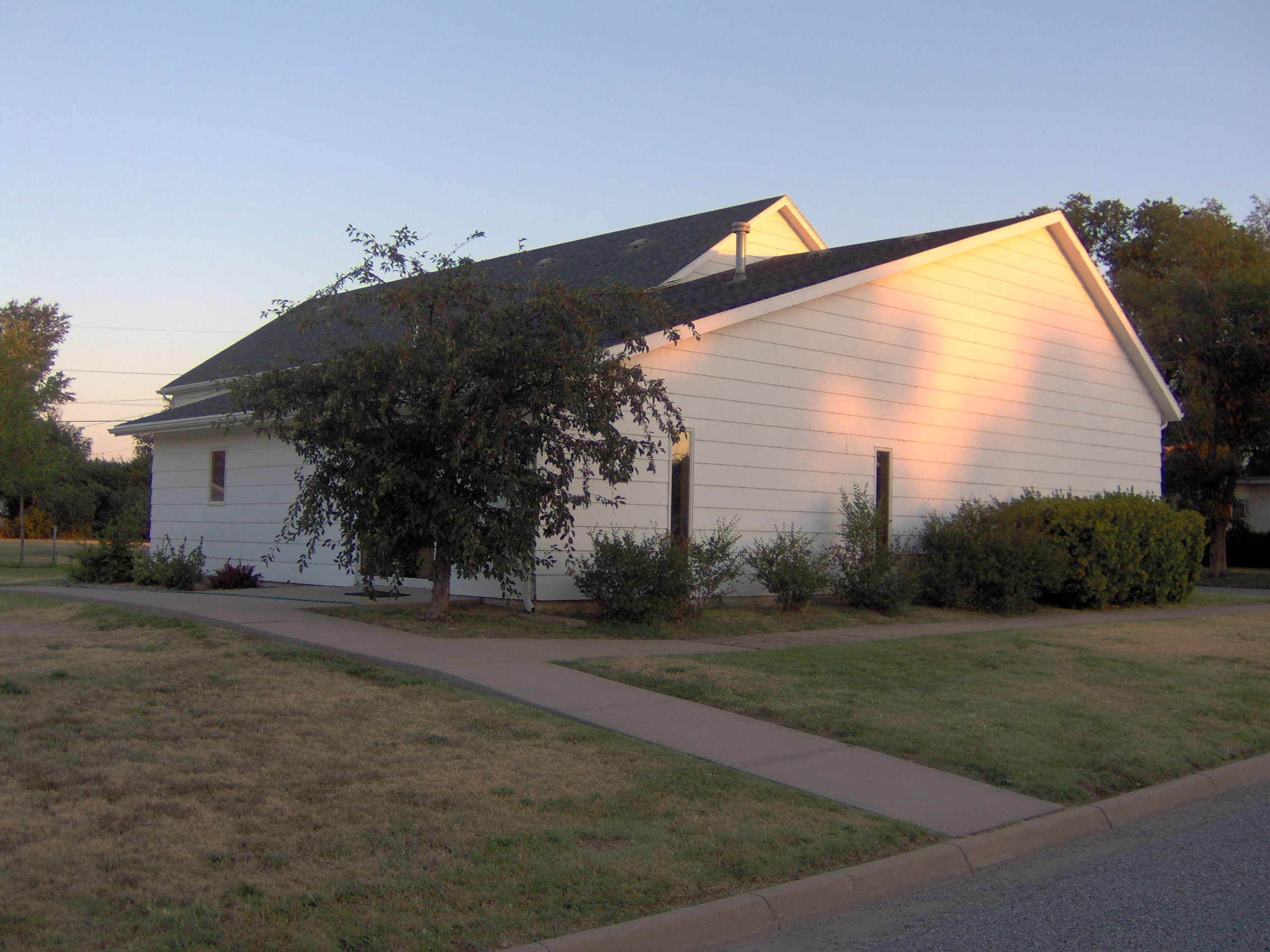 Eastern side and rear of the Minneola Reformed Presbyterian Church, located at 405 Locust Street in Minneola, Kansas, United States.